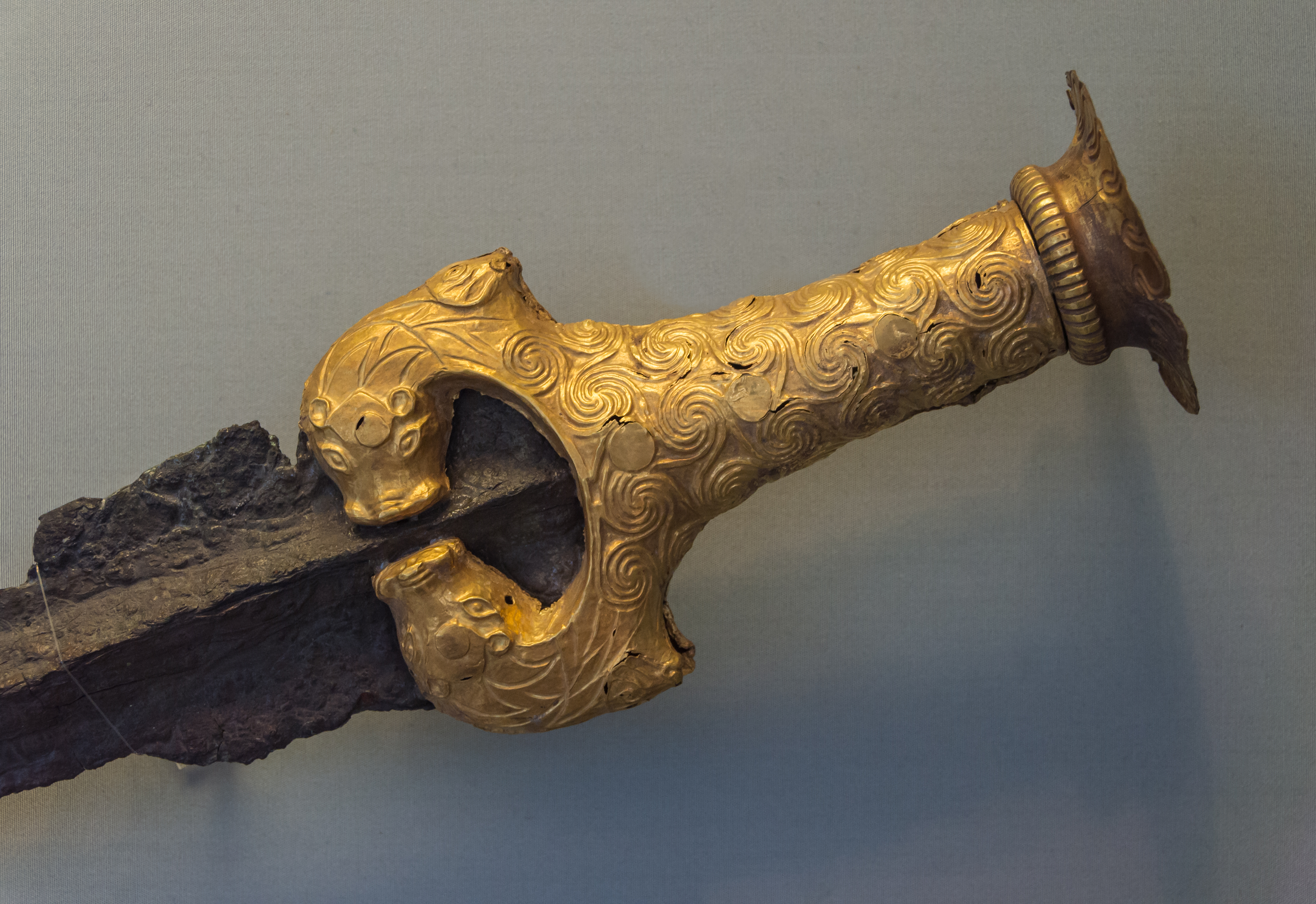 Mycenaean dagger, gold and iron, detail, NAMA 8710, Athens, Greece